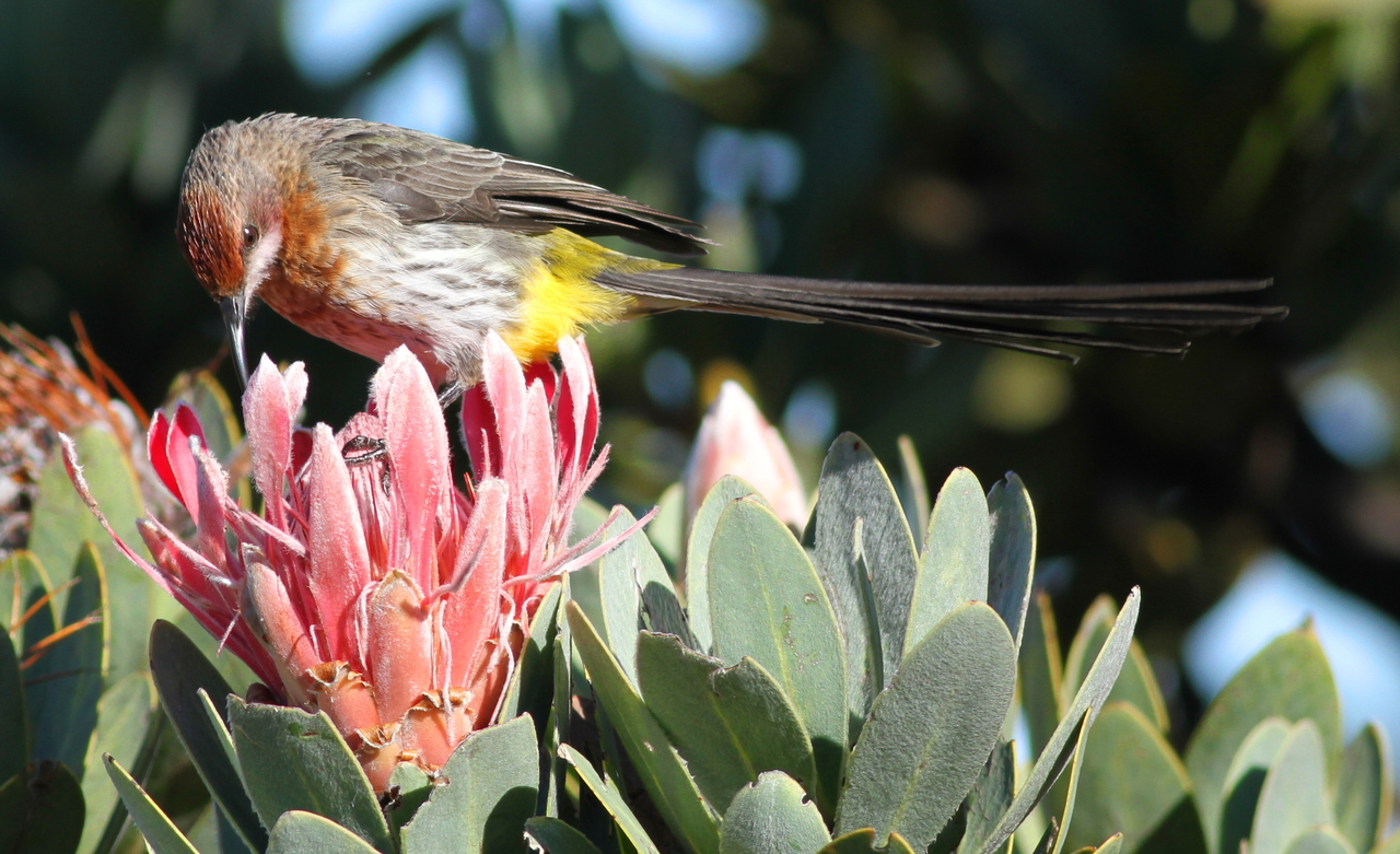 Gurney's Sugarbird, Promerops gurneyi at Marakele National Park